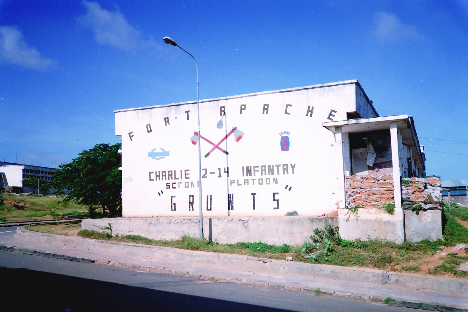 Fort Apache in Mogadishu, Somaliaaround the university compound